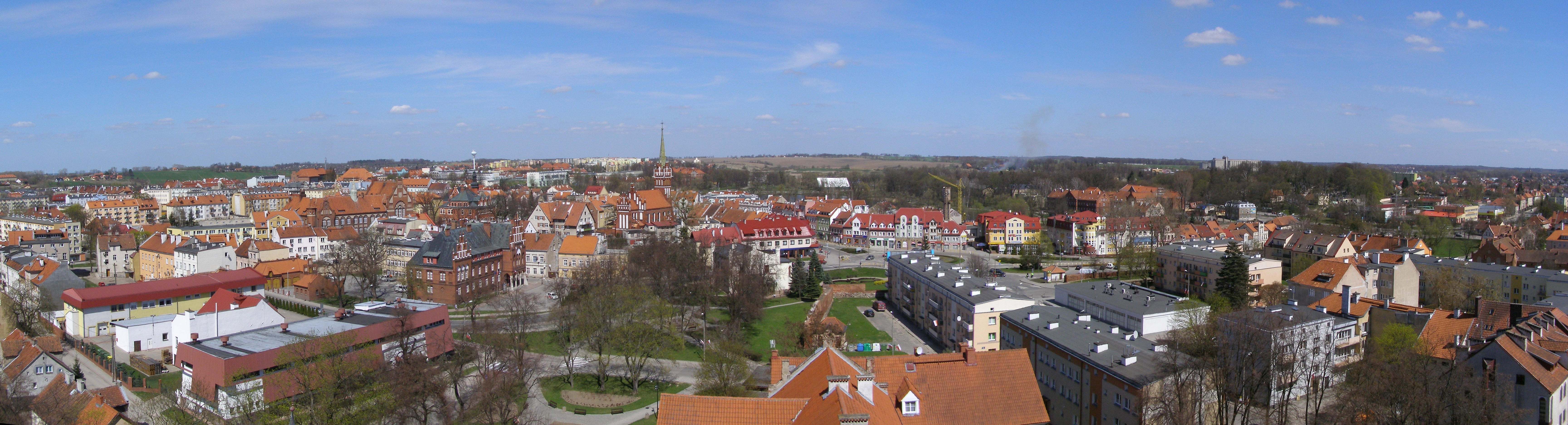 Kętrzyn - view from the St. George's basilica